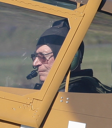 James "Stocky" Edwards takes to the air in a P-40 Kittyhawk bearing the marking found on the one he flew in World War 2